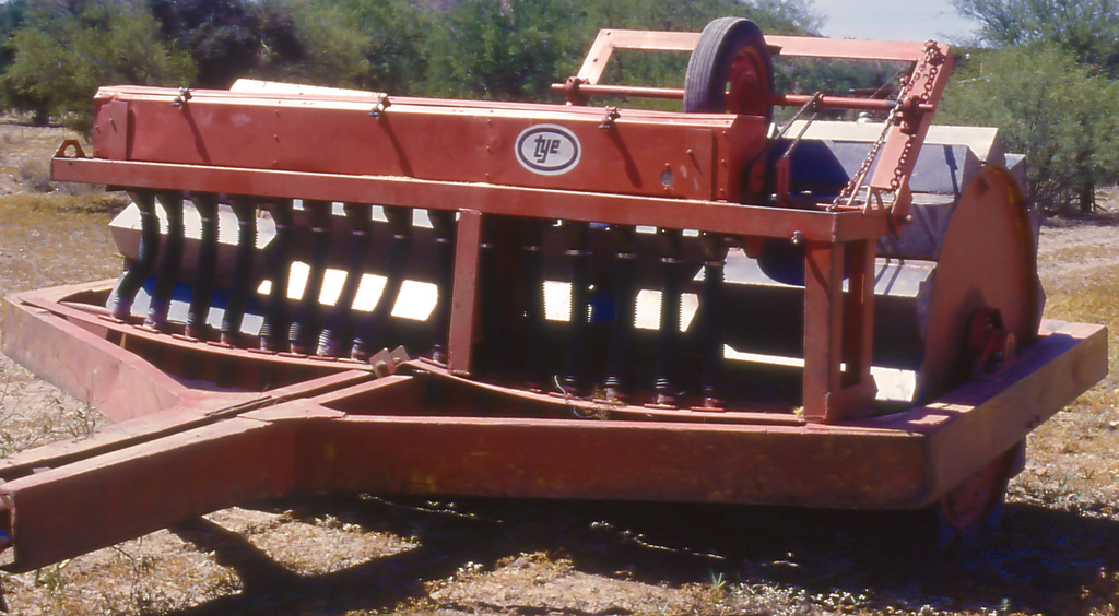 A Dixon land imprinter with seeder. This Dixon land imprinter, ca. 1985, has a built-in seeder and features an early design imprinting roller (later rollers have narrower teeth, to prevent water channeling).